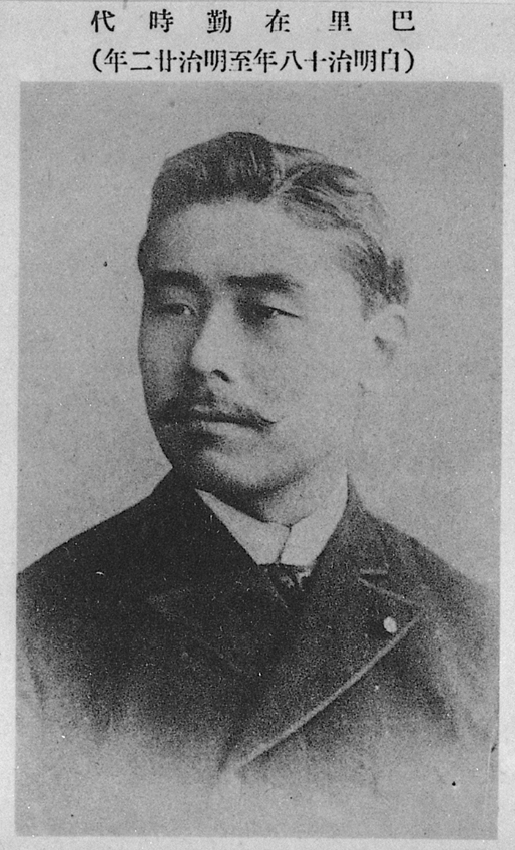 Portrait of Hara Takashi (原敬, 1856 – 1921)